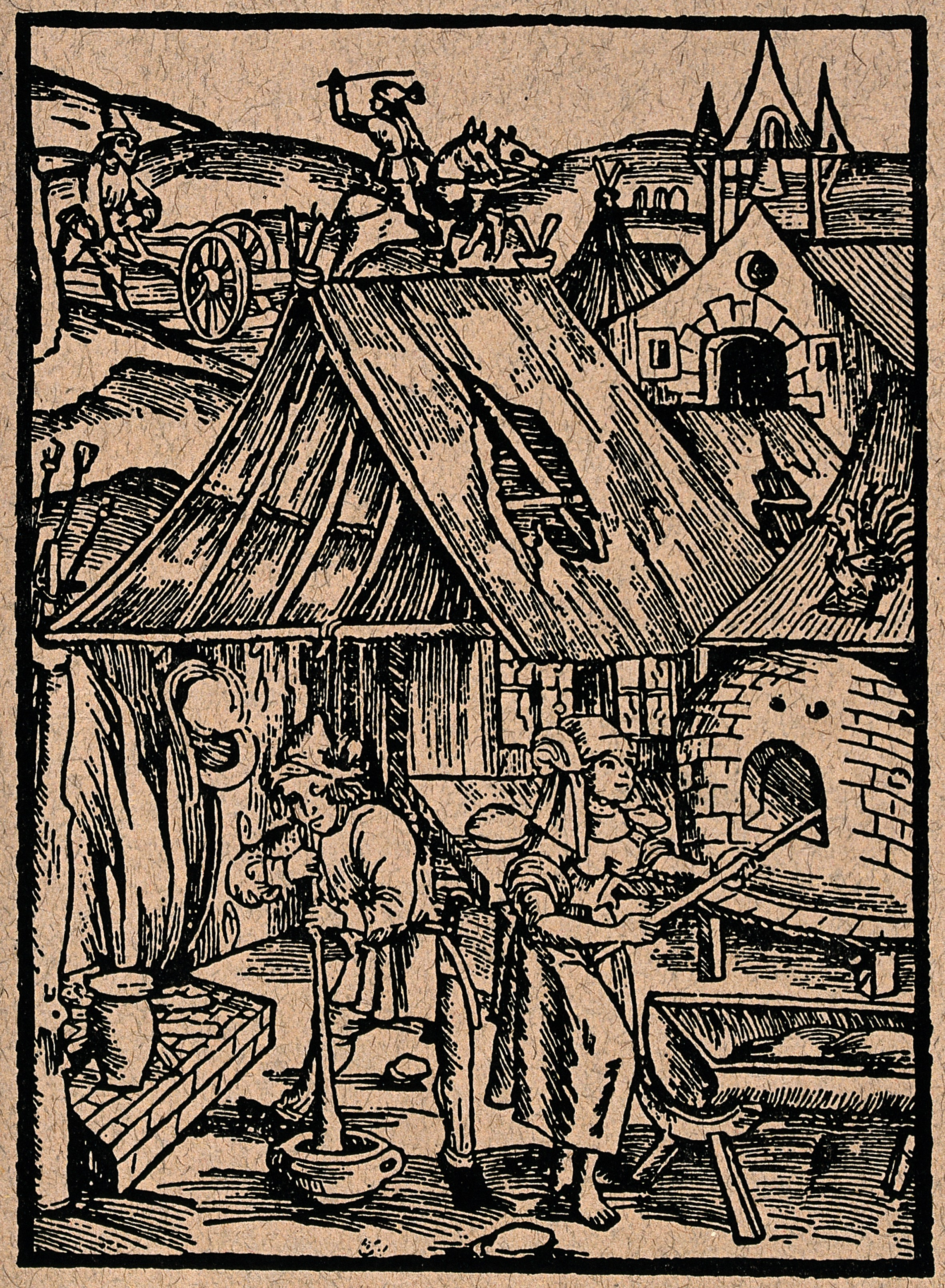 Two people are making bread in a great brick-built oven. Process print Iconographic Collections